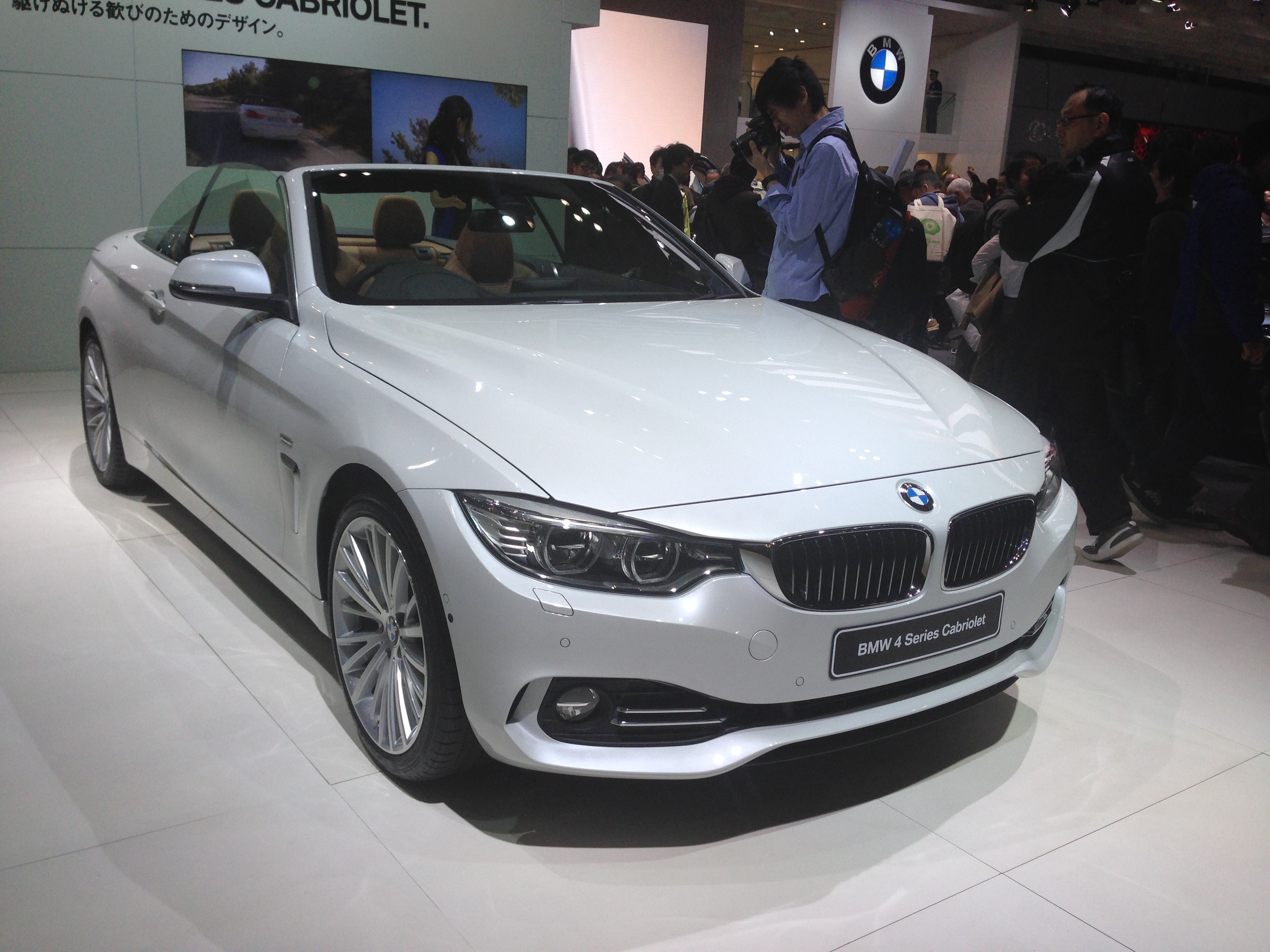 BMW 4-Series Cabriolet photographed at the Tokyo Motor Show 2013.